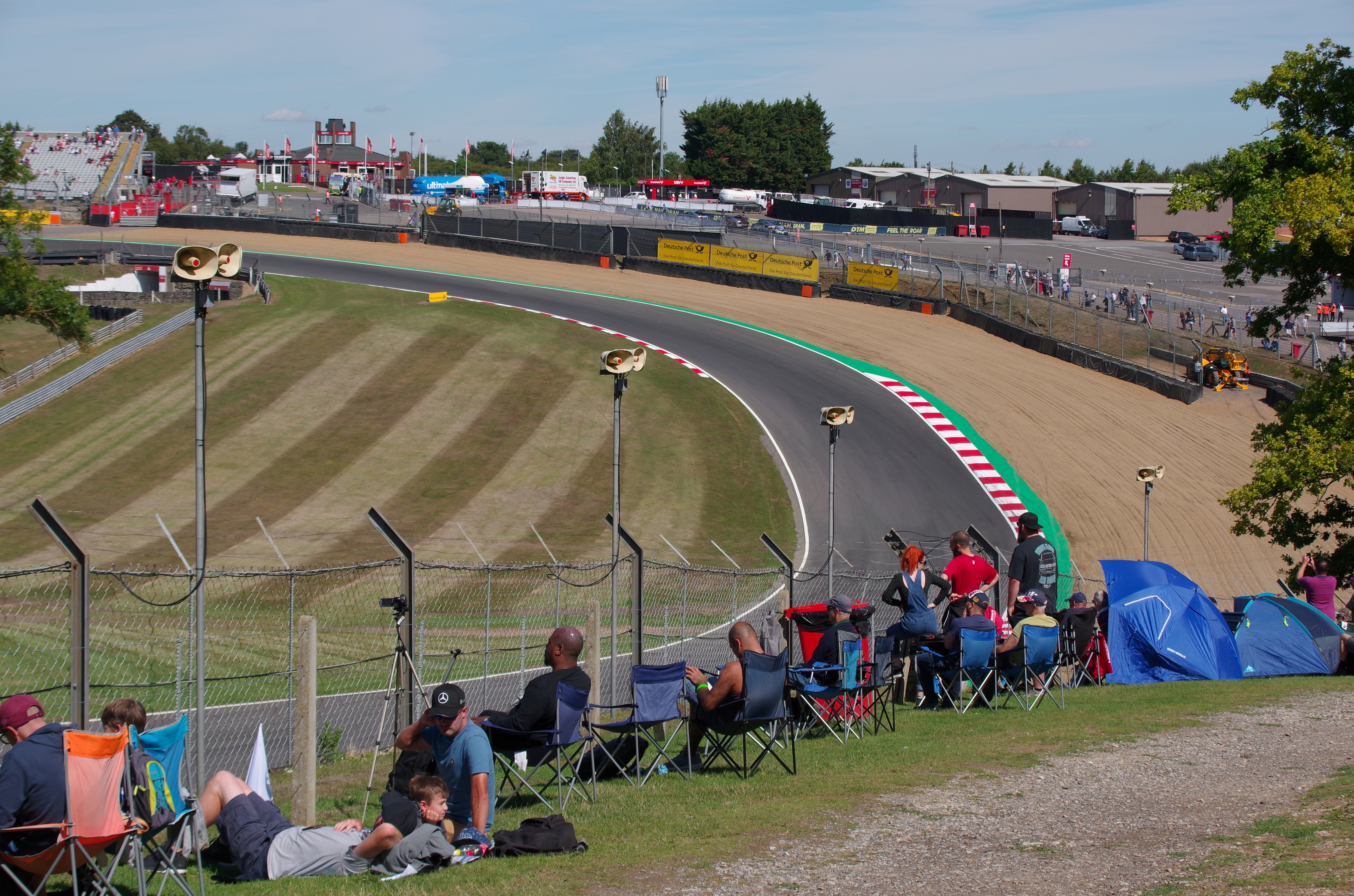 Brands Hatch 2018, during a DTM race. Hill Bend.